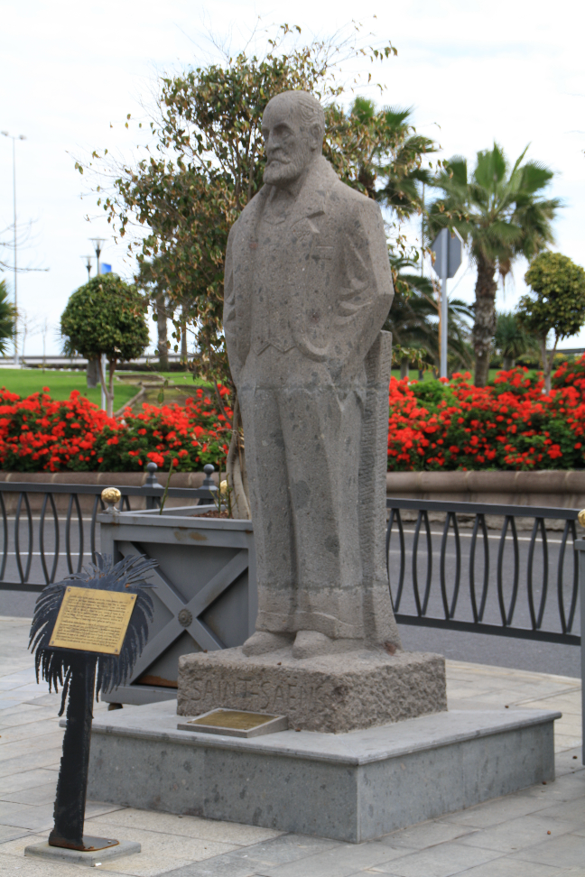 Statue of Camille Saint-Saëns in Las Palmas, Gran Canaria